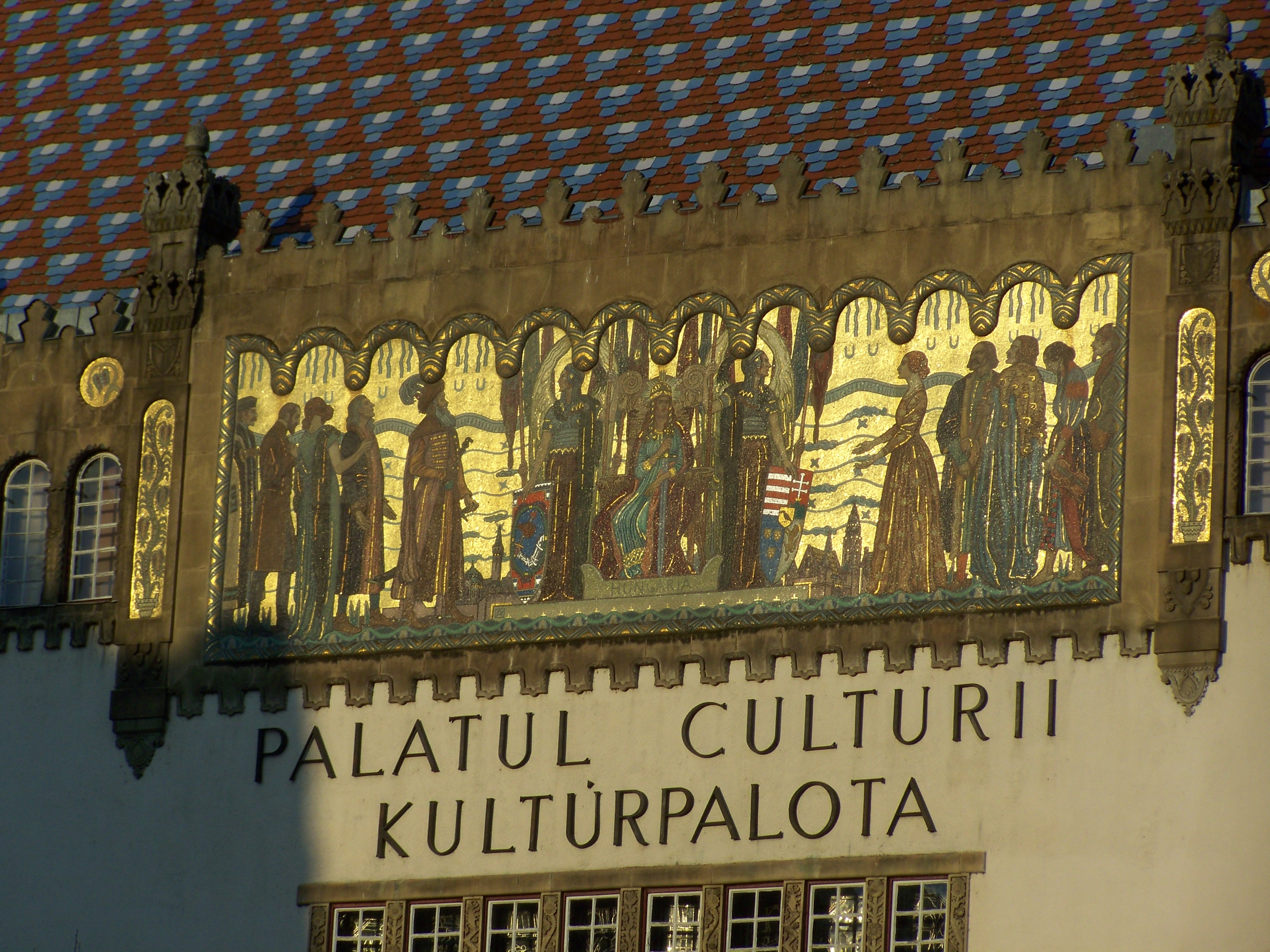 The mosaik on the Facade of the Culture Palace of Targu Mures, with the title "Hódolat Hungáriának". Proiected by Körösfői-Kriesch Aladár